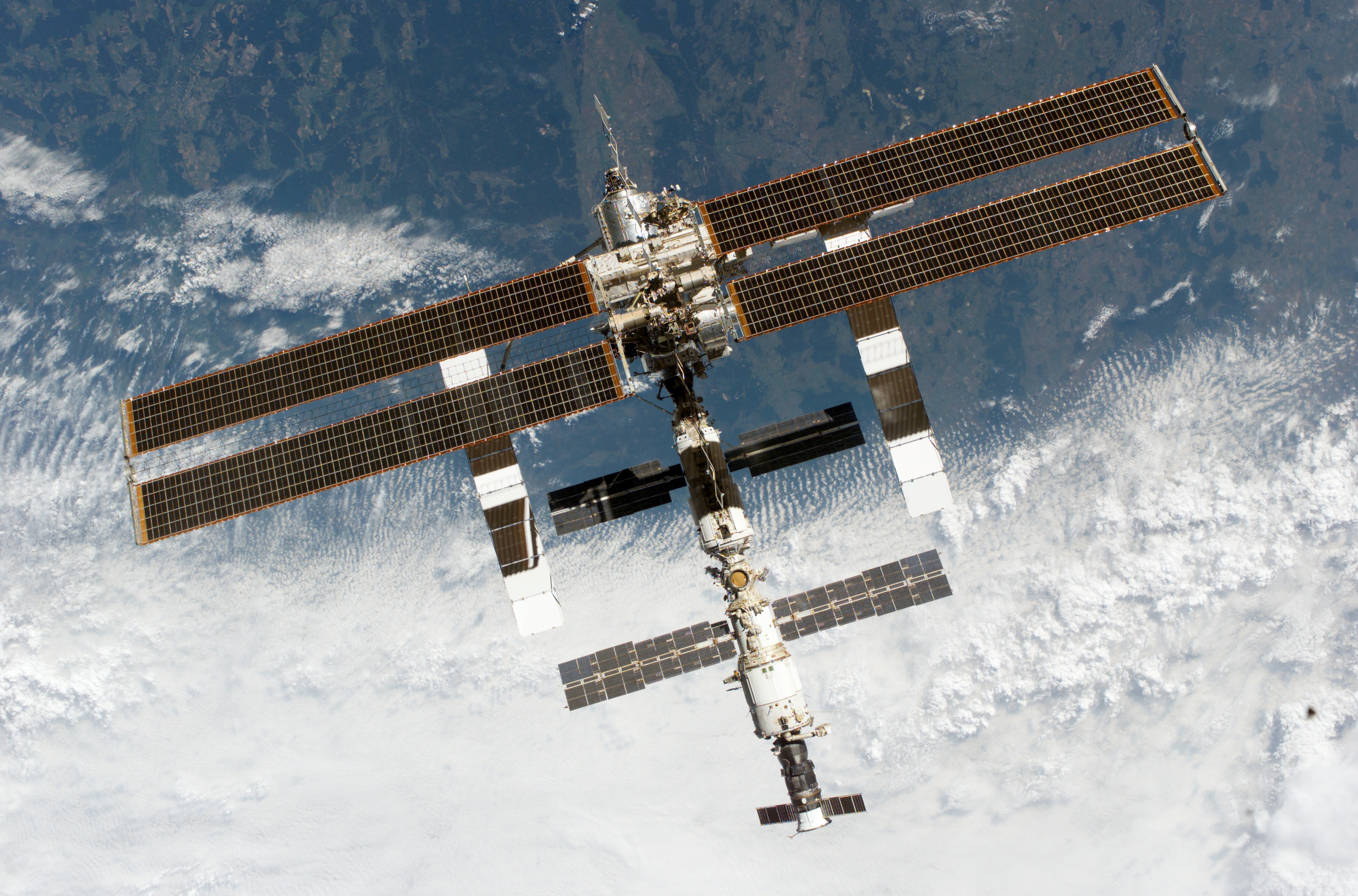 An astronaut aboard Space Shuttle Discovery captured this image of the International Space Station moments after the orbiter undocked from the Station.